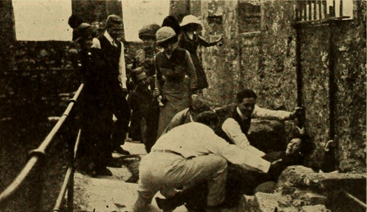 Gene Gauntier, prepares for kissing the Blarney Stone of Blarney Castle at Blarney in Ireland, 1911. Gene Gauntier claimed the honor of having kissed the Blarney Stone three times